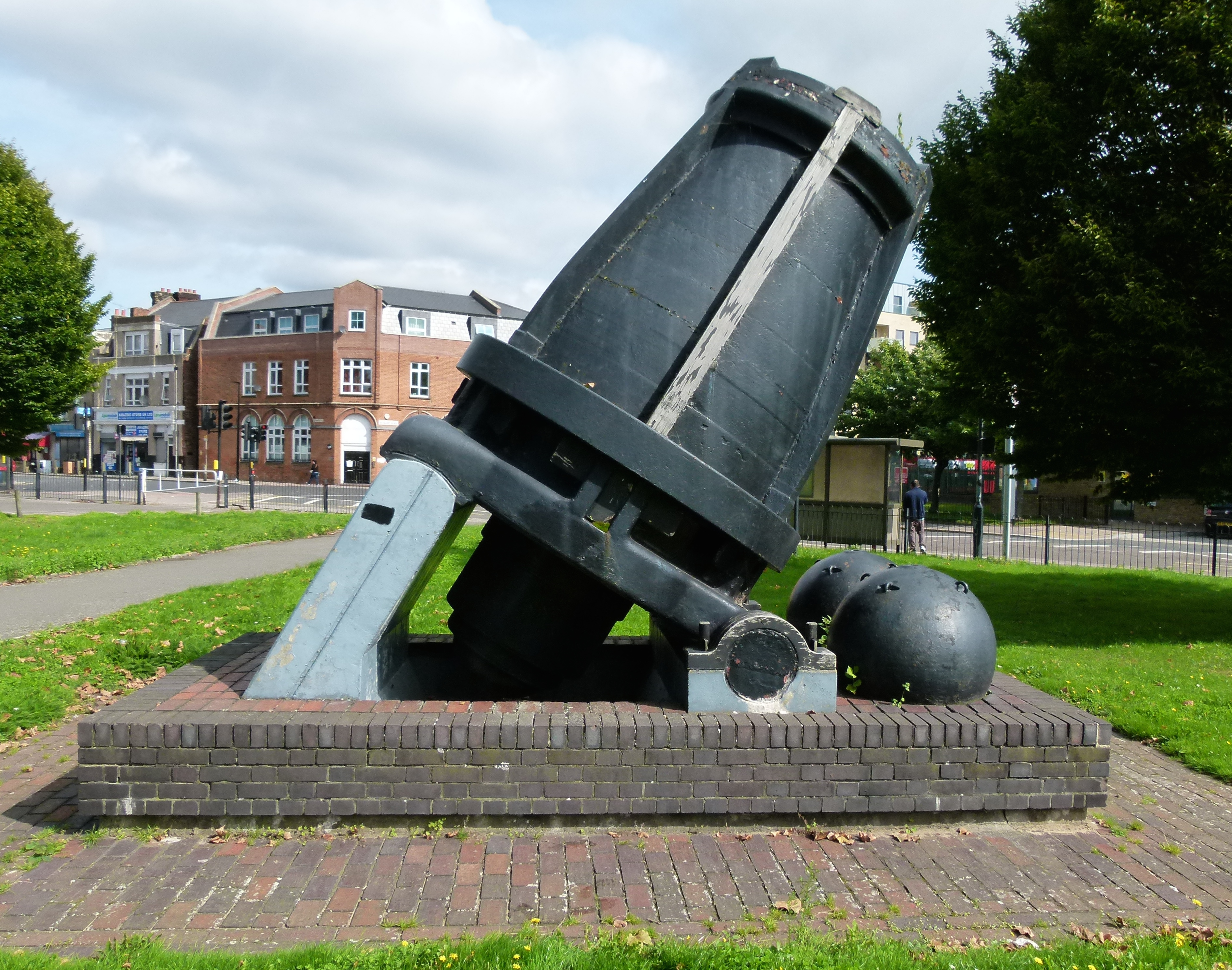 Mallet's Mortar, a very large mortar of which only two were built. This one stands on Greenhill Terrace, Woolwich, South East London. It is on loan from the Royal Armouries. In the background: Frances Street (left) and Repository Road (right).